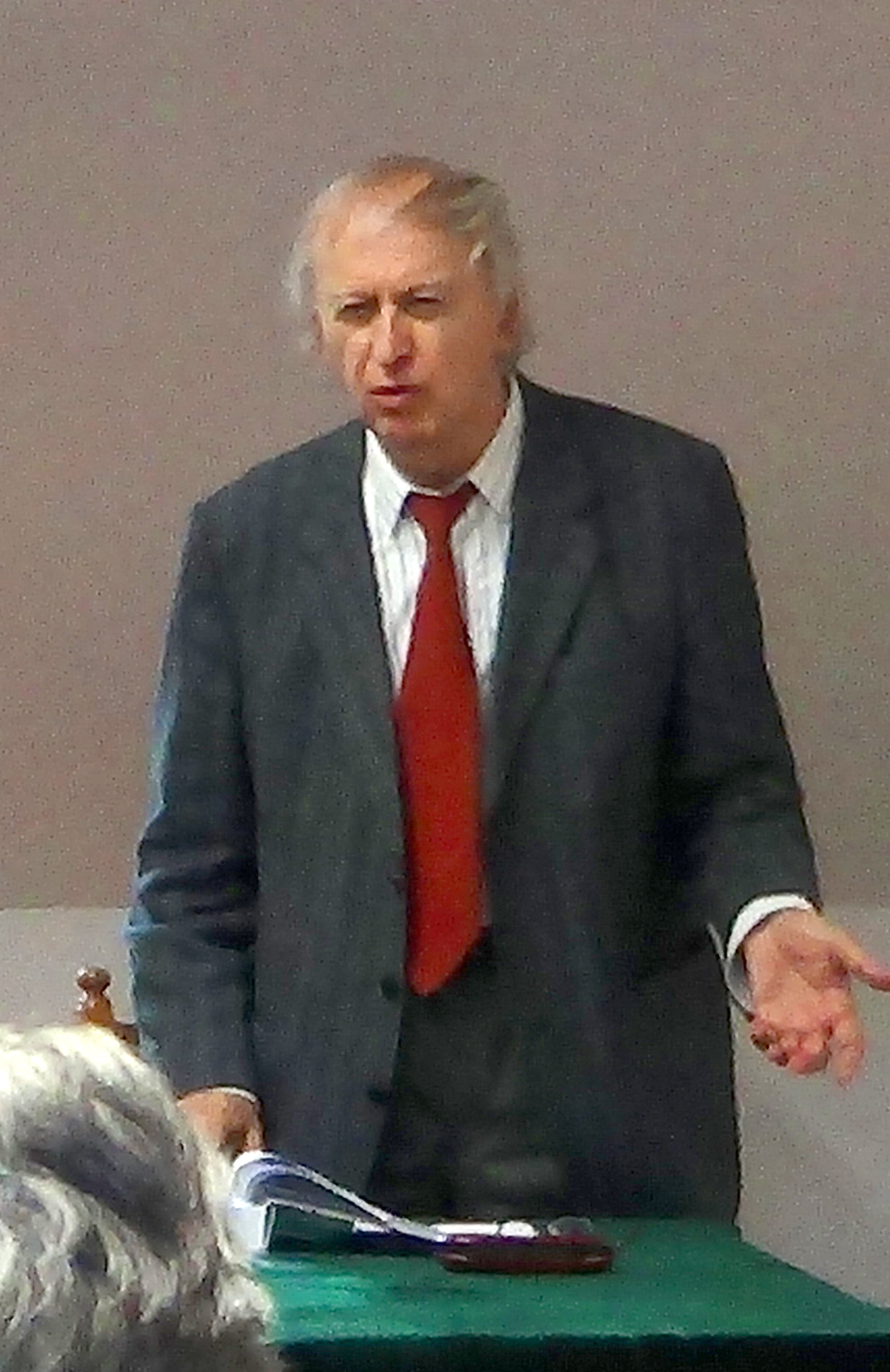 Professor Dr Victor Spinei (Alexandru Ioan Cuza University) in 2012